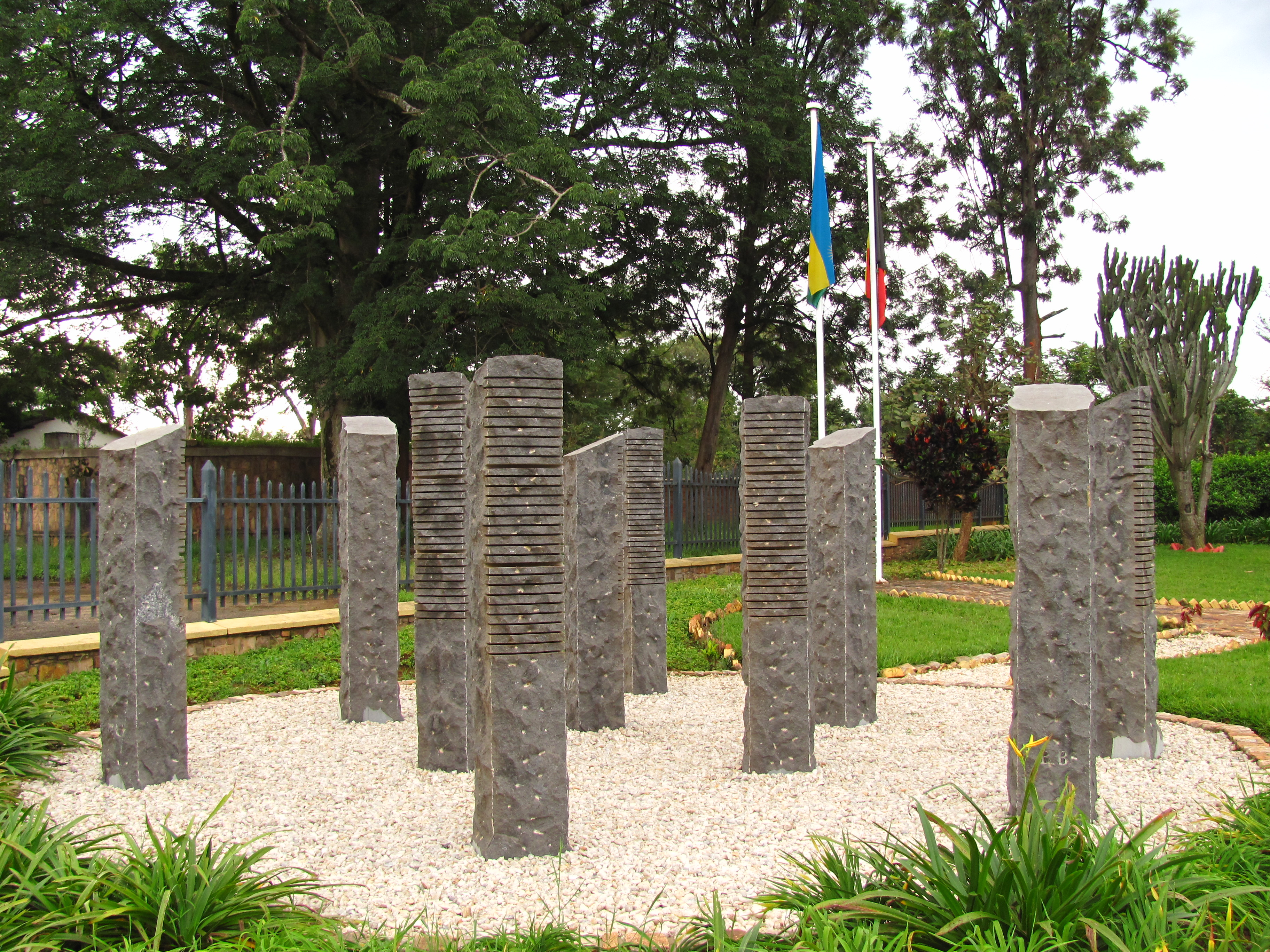 Memorial for the dead belgian UNAMIR Blue Berets in Kigali, Rwanda